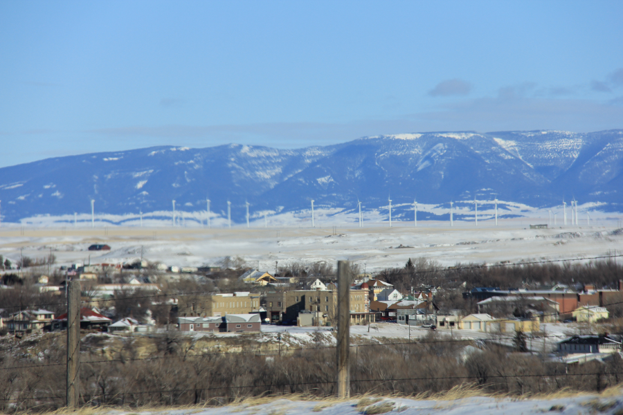 Harlowton Montana Skyline 300x300 dpi 3inches by 2 inches